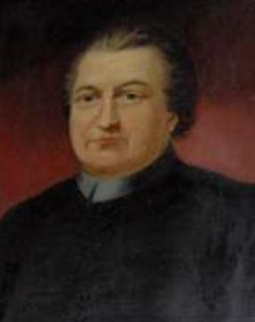 Charles Nerinckx (1761-1824), Belgian Roman Catholic priest, from 1804 working in Kentucky, founder of the Sisters of Loretto